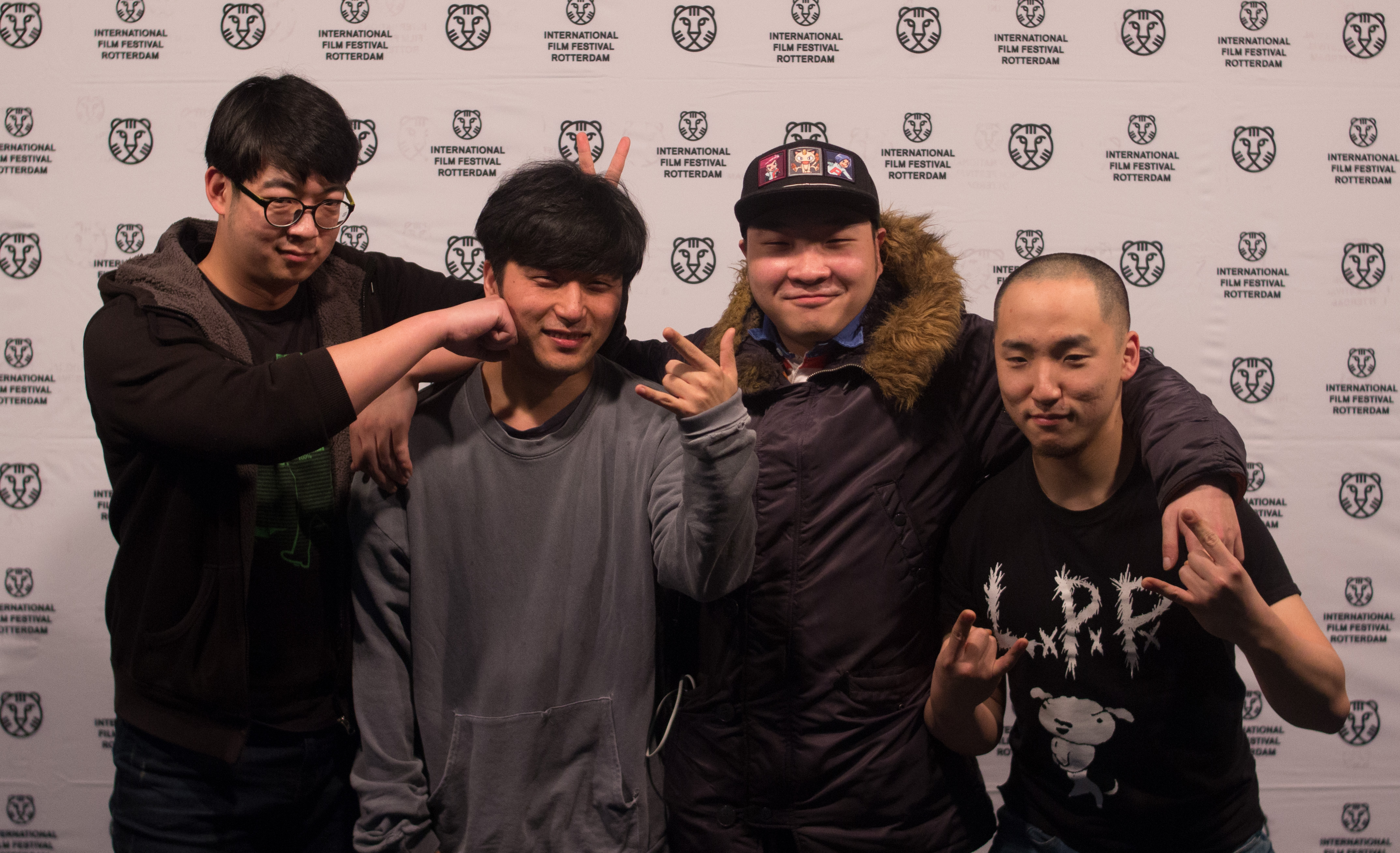 Jung Yoonsuk and Jang Sunggun promoting "Bamseom Pirates Seoul Inferno" at the IFFR 2017